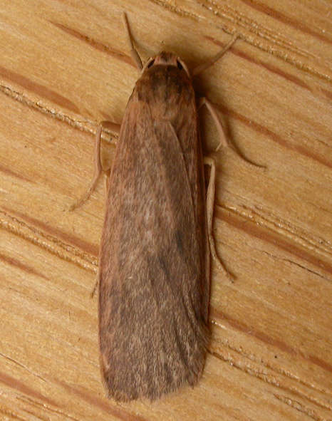 Scoliacma nana